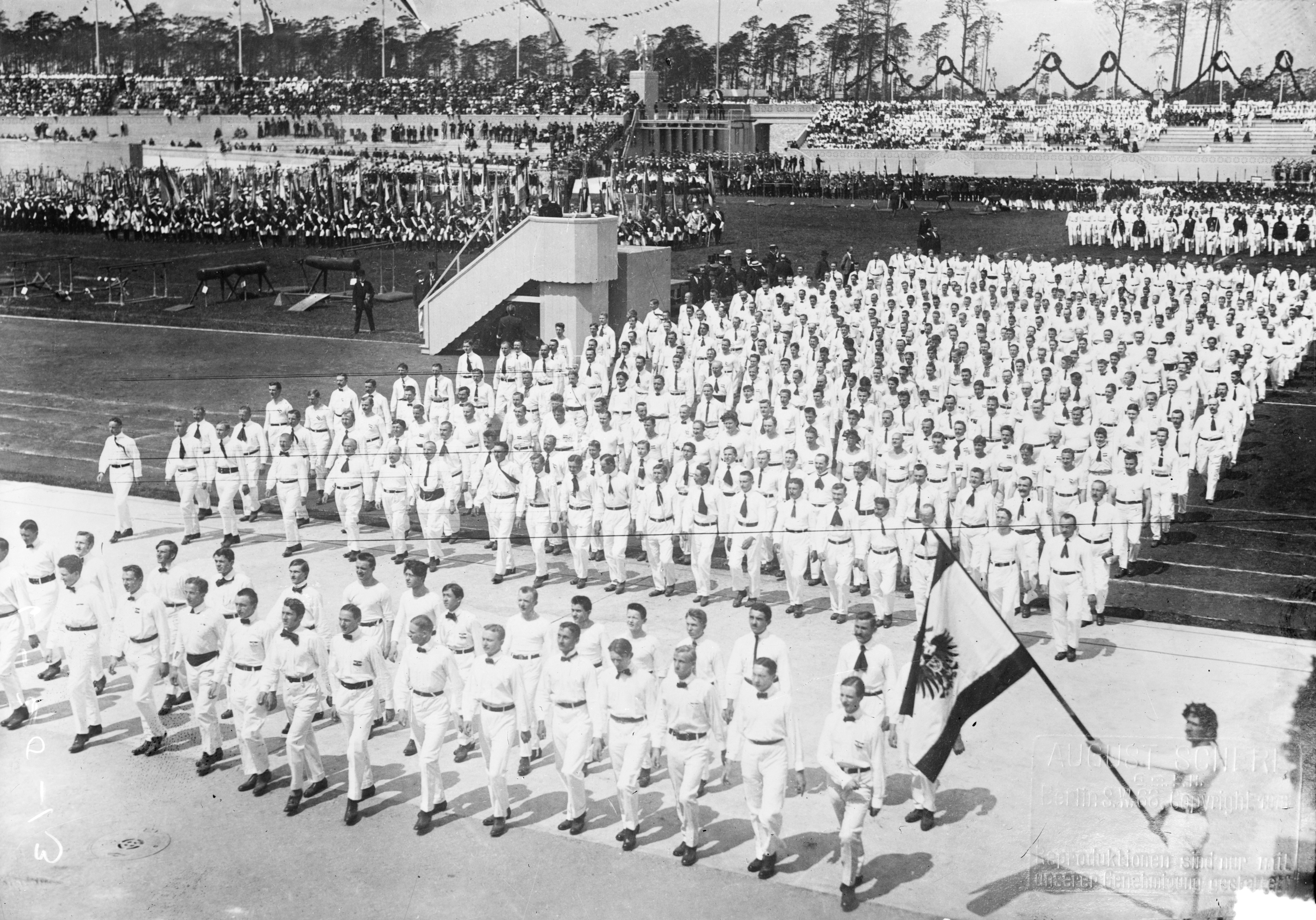 Bain News Service, publisher. Parade of Turners at opening Berlin stadium for the 1916 Summer Olympics 1 negative : glass ; 5 x 7 in. or smaller. Notes: Title from unverified data provided by the Bain News Service on the negatives or caption cards. Forms part of: George Grantham Bain Collection (Library of Congress). Format: Glass negatives. Repository: Library of Congress, Prints and Photographs Division, Washington, D.C. 20540 USA, General information about the Bain Collection is available at Persistent URL: Call Number: LC-B2- 2765-5